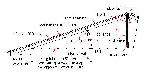 Sketch by Bill Bradley. Feel free to use it, just credit me as the creator.